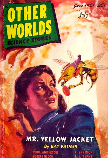 Cover of Other Worlds, June-July 1951